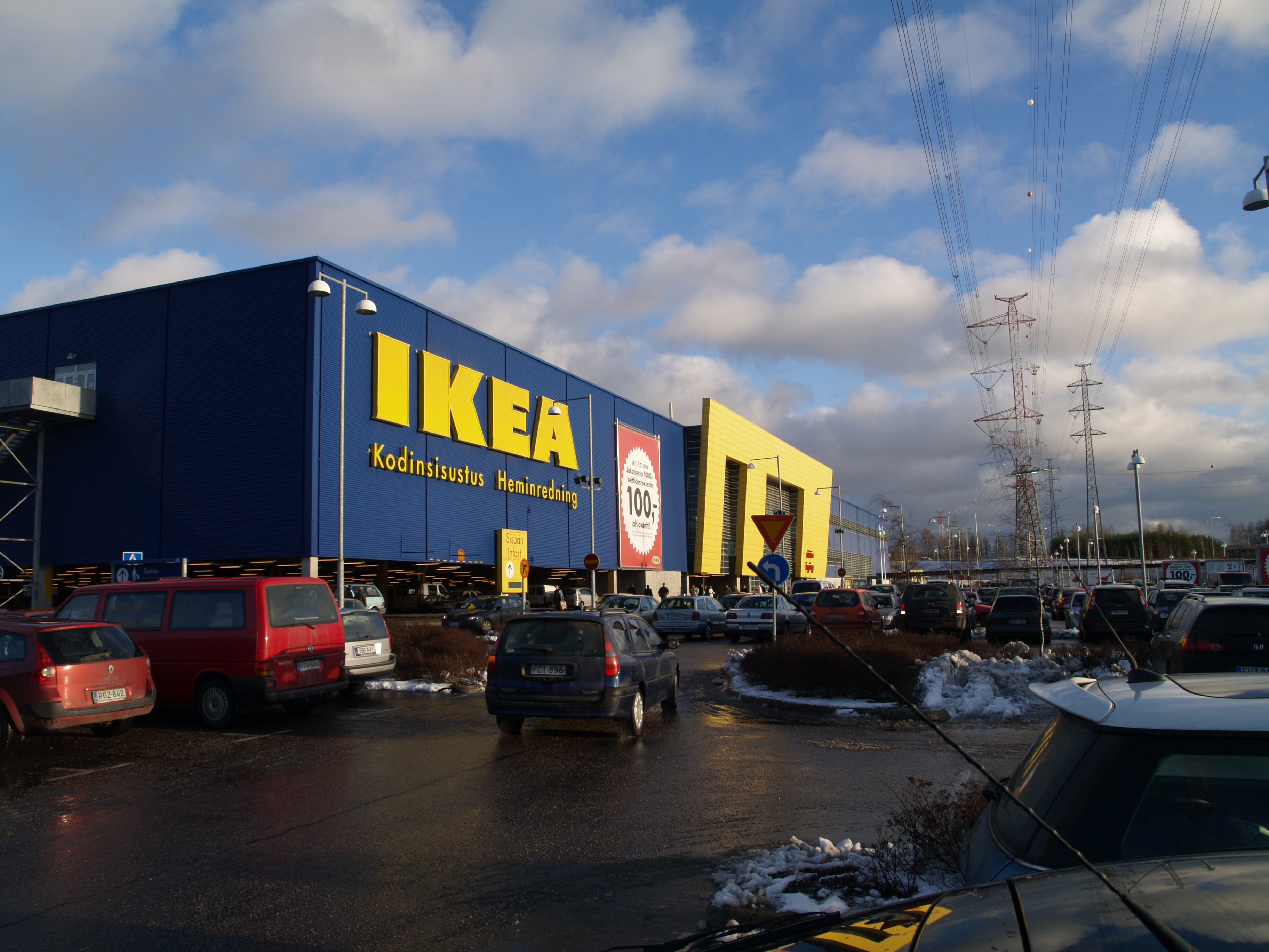 Facade of Ikea shop at Vantaa, Finland